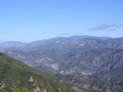 San Rafael Mountains from near La Cumbre Peak. Photo taken looking northwest, from the top of the Santa Ynez Mountains; you can see most of the San Rafael Mountains from this vantage point. San Rafael Mountain and McKinley Mountain are the highest peaks in the distance.